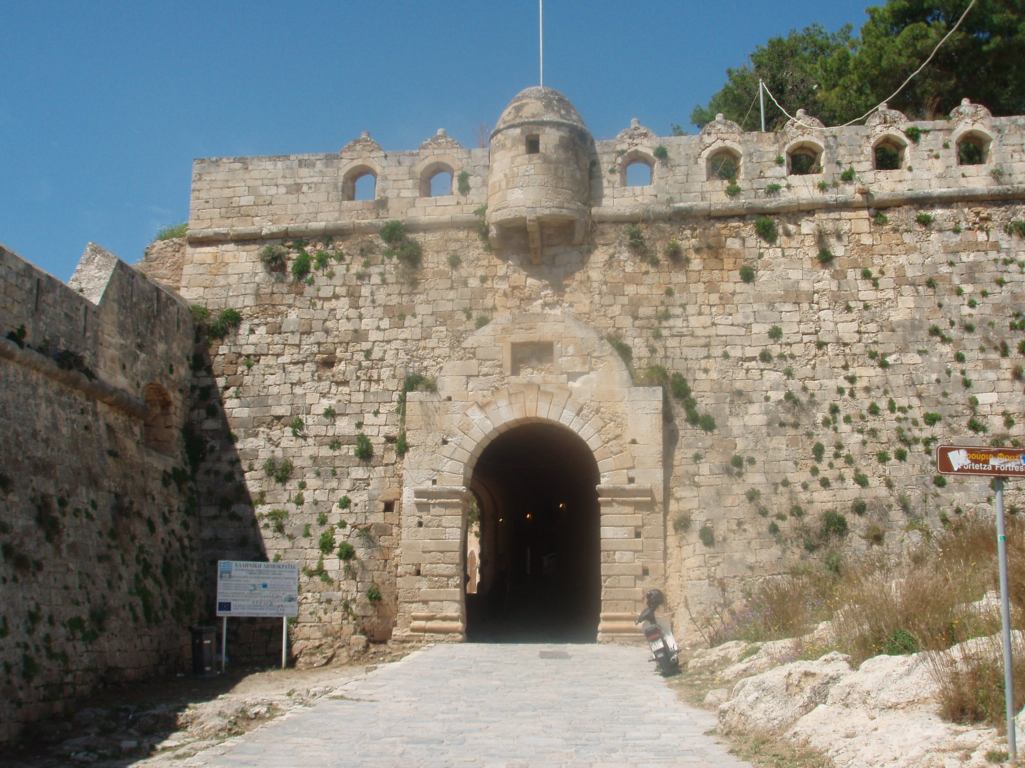 The main (eastern) gate of the Fortezza citadel of Rethymno in Crete.